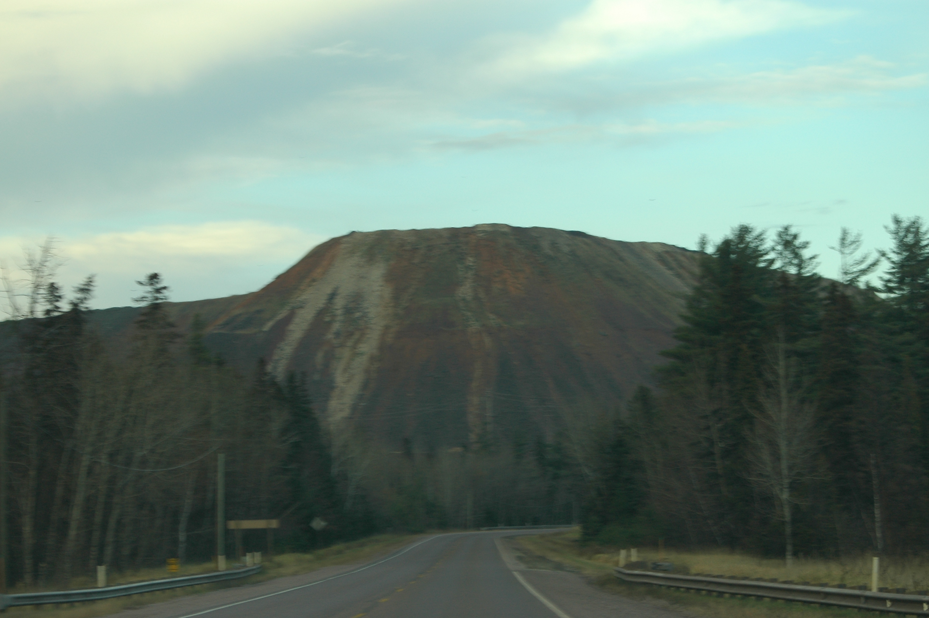 Empire Mine waste rock piles along M-35 northbound out of Palmer, Michigan.